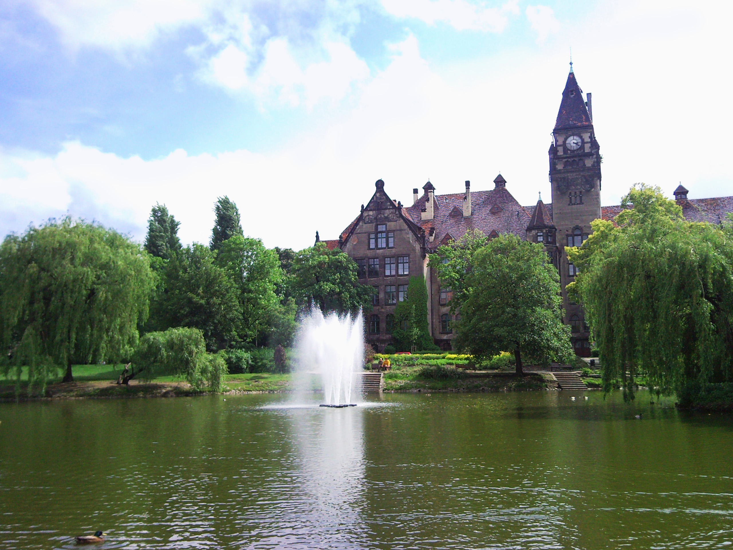 Wrocław University of Technology, Faculty of Architecture